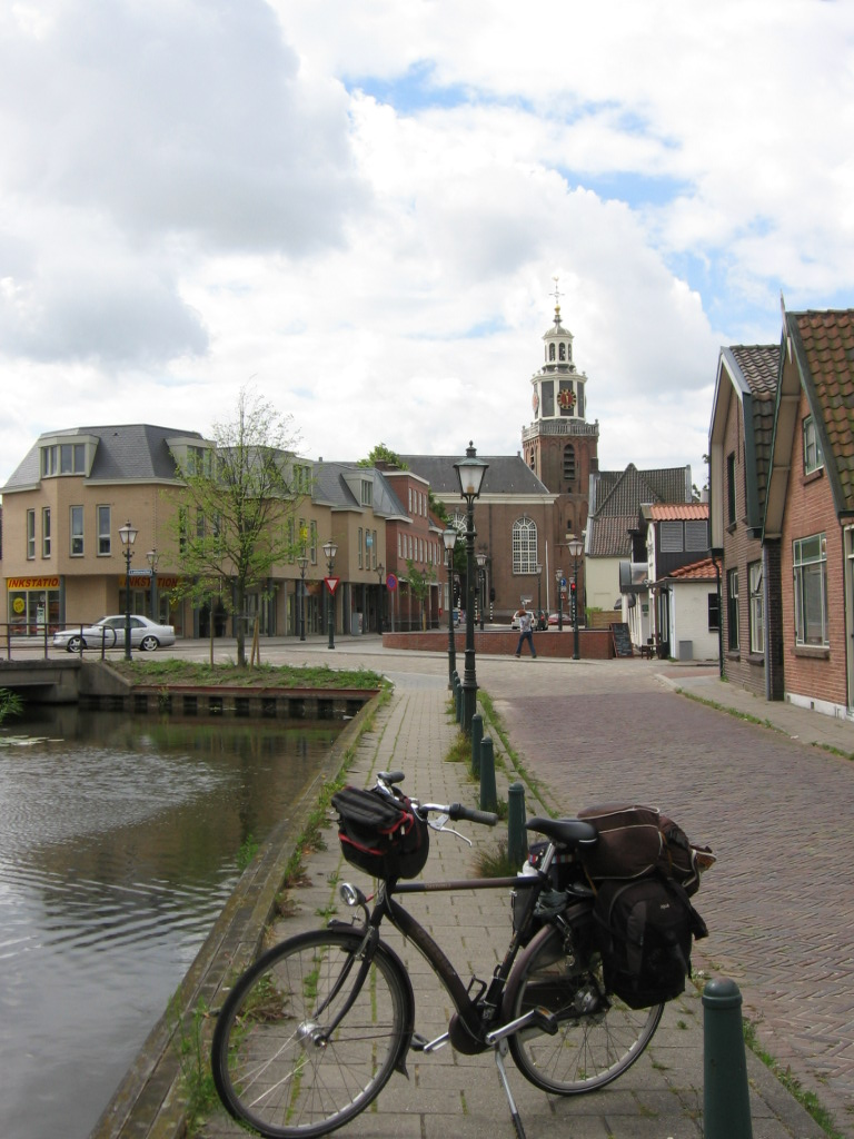 This is a picture from the old village center of Zoetermeer. In the middle the church with the 15th century medieval clock tower. Picture taken and uploaded by Daniel Geelhoed